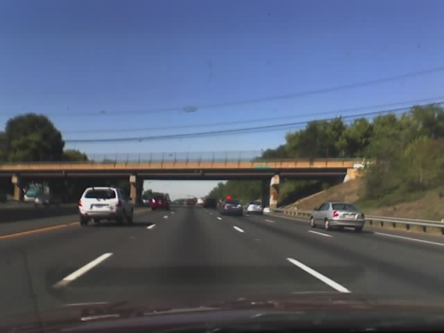 Photo of Windsor Mill Road overpass from the Baltimore Beltway (I-695).